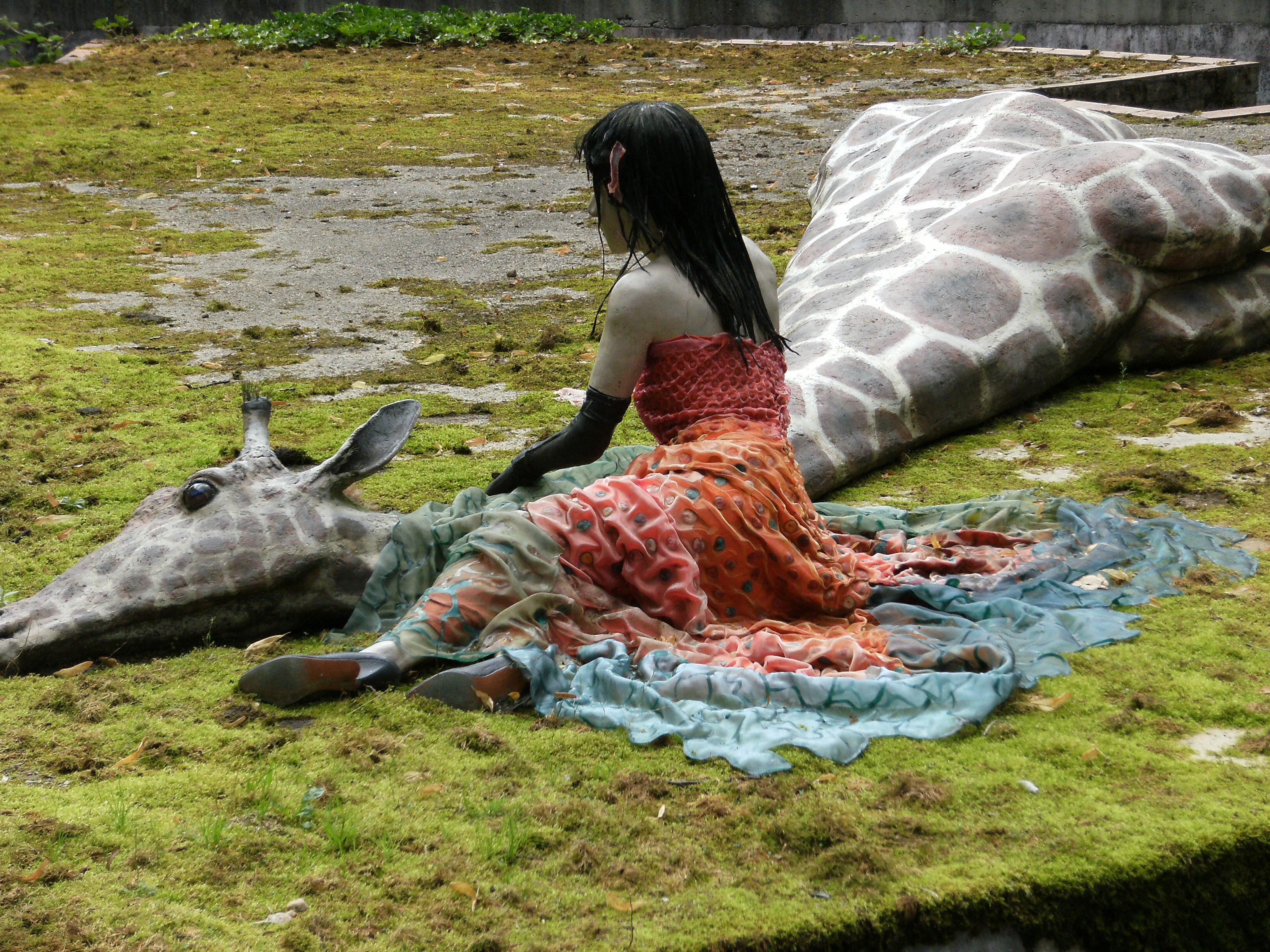 Sculpture / installation by Michel Huisman in Maastricht